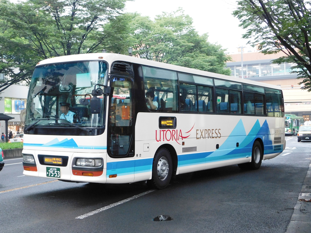 Yamako bus Isuzu Gala (KL-LV781R2)limited express "48 cherry liner"(Sendai-Tendo,Sagae)